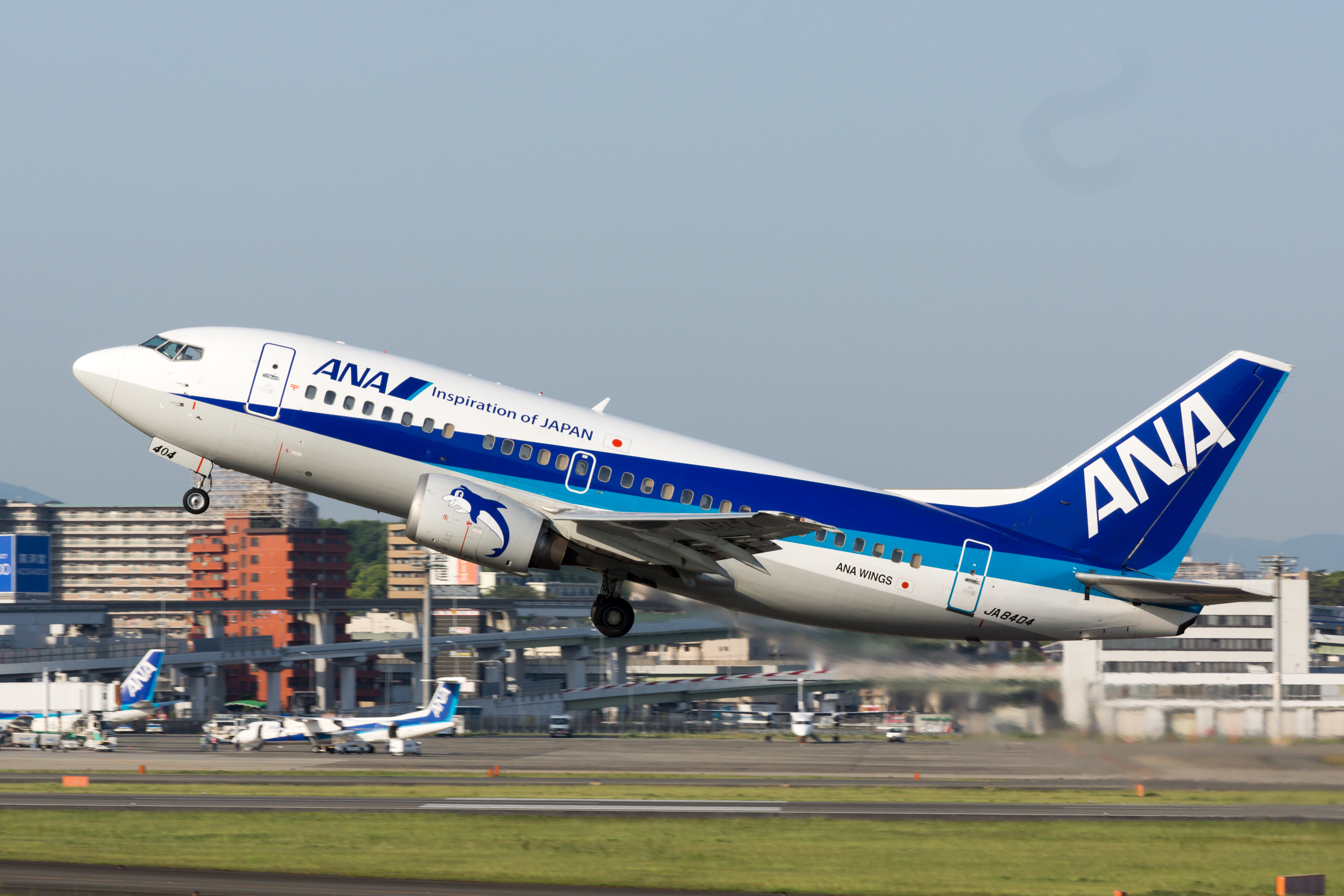 ANA Wings / ANAウィングス Boeing 737-54K JA8404 NH1645, Departed to Miyazaki Osaka Itami Int'l Airport